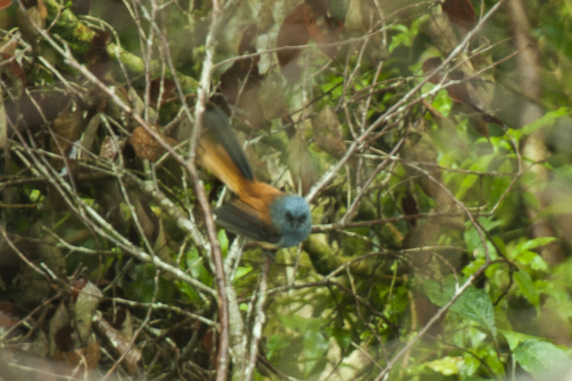 Blue-headed Fantail - Luzon - Philippines_H8O0002